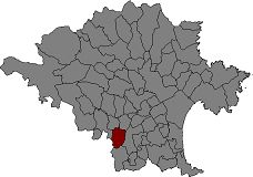 Location of Pontós in Alt Empordà